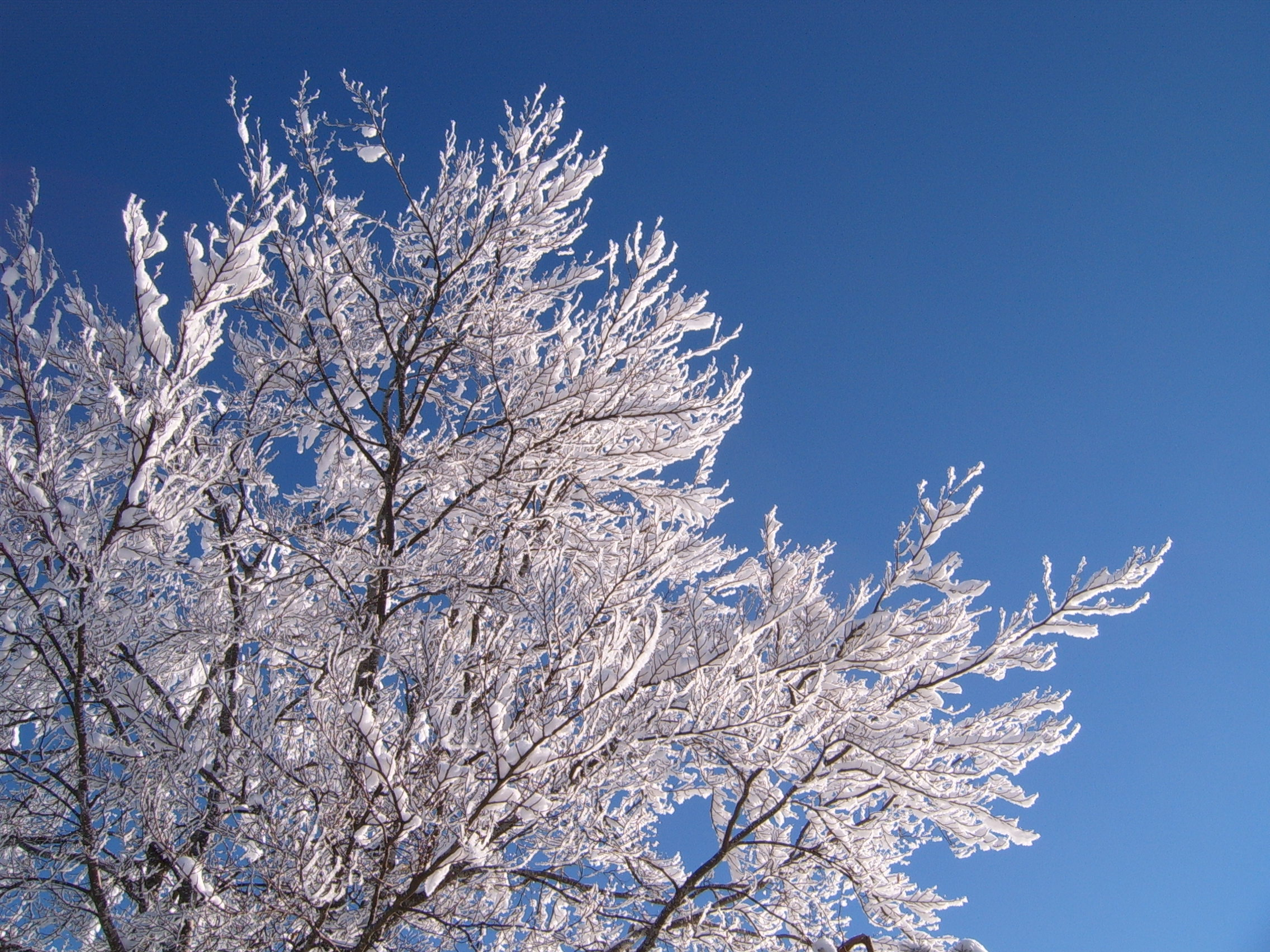 Snowy Fagus sylvatica tree near Einsiedeln, Switzerland Photographer: Markus Bernet Date: 12/30/2005 Related photograph: Image:Winter tree.jpg